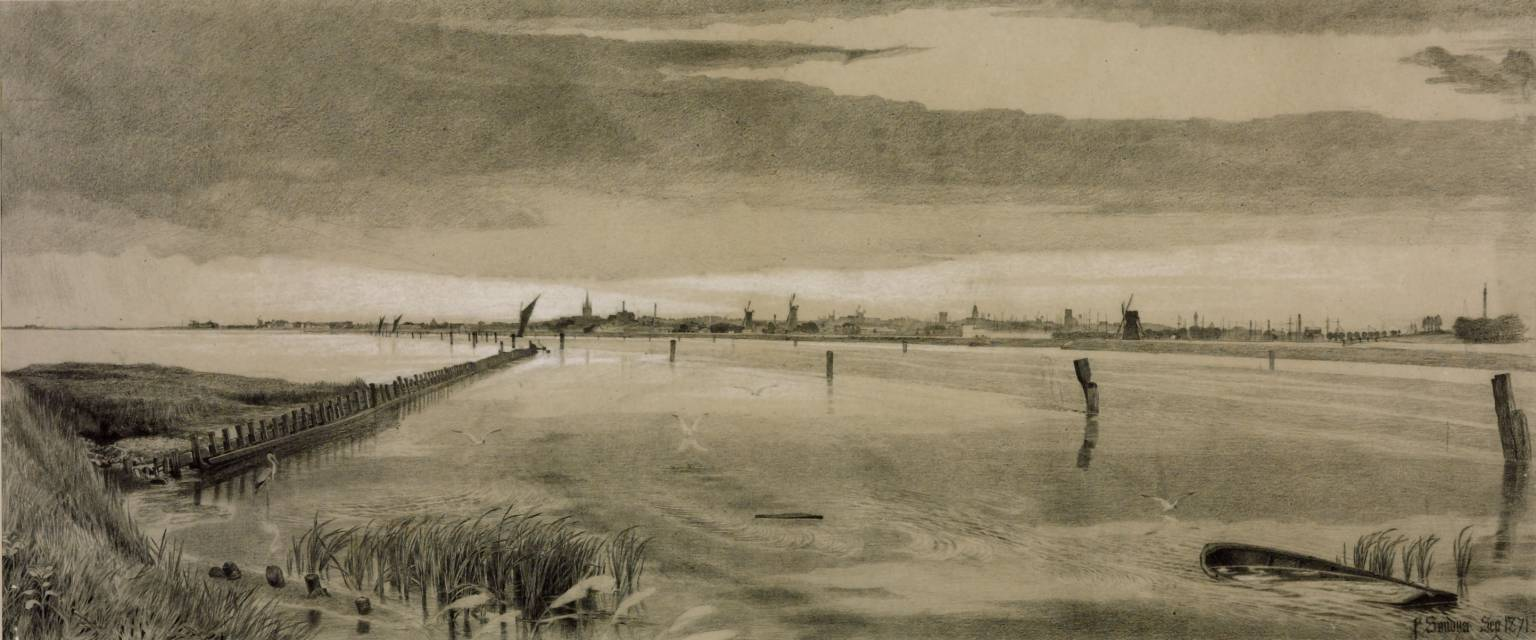 Great Yarmouth and Breydon Water 1871 Frederick Sandys 1829-1904 Purchased 1989